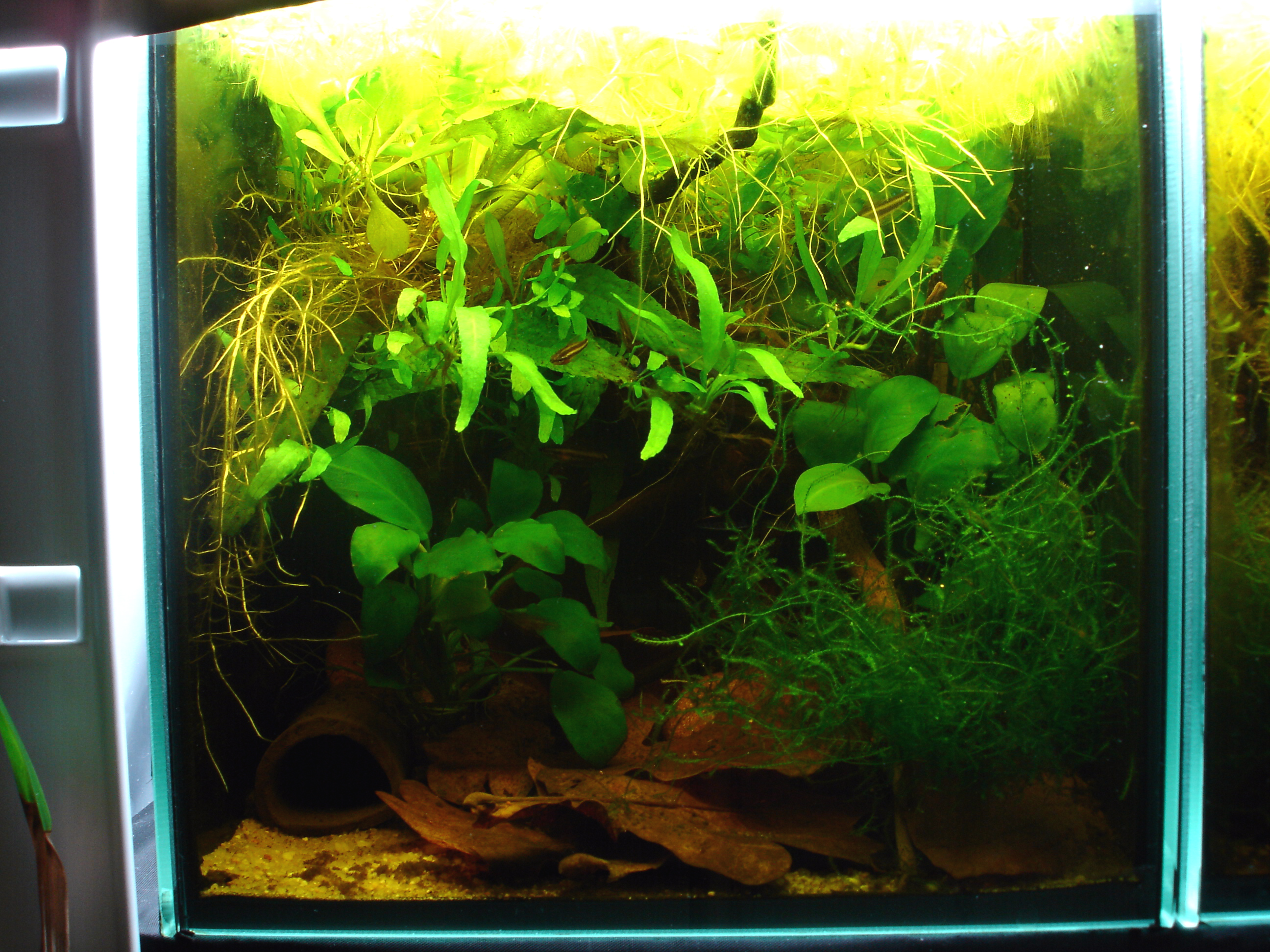 Small aquarium for extensive breeding of licorice gouramis